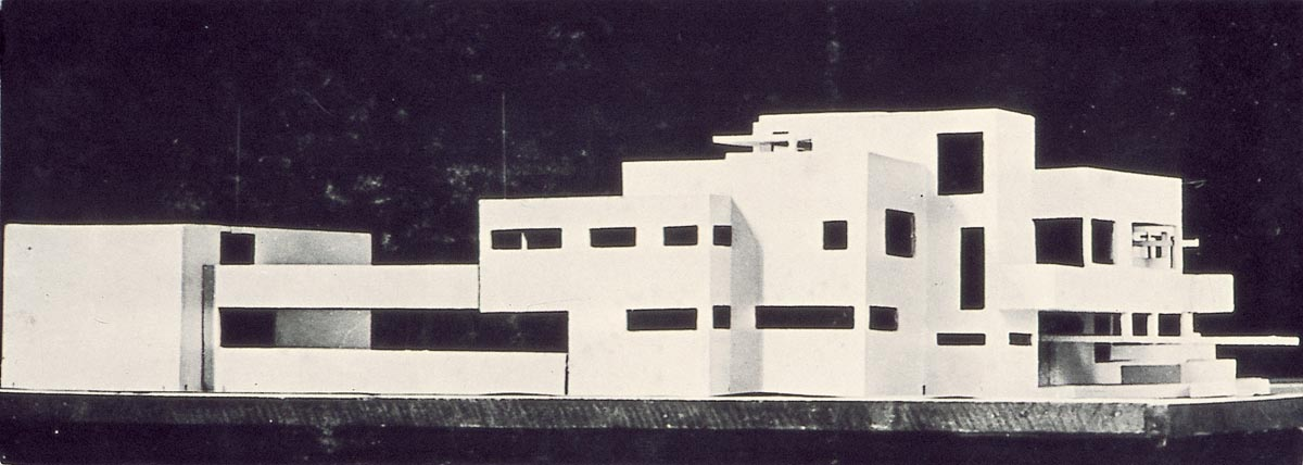 Theo van Doesburg. Model Hôtel Particulier. 1923. Photo. 14.5 × 39.8 cm. Rotterdam, The Netherlands Architecture Institute (inv.nr. AB5304).